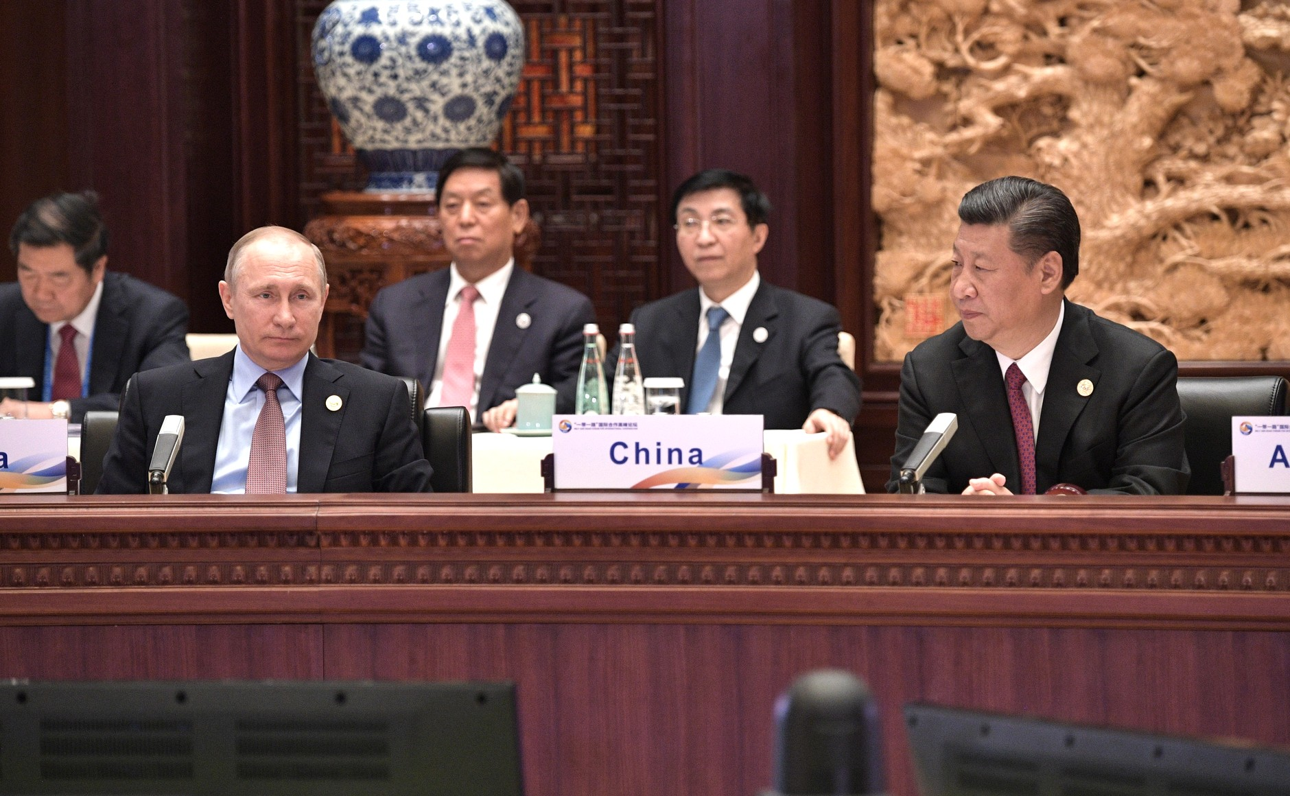 President of Russia Vladimir Putin with President of China Xi Jinping at the Belt and Road international forum